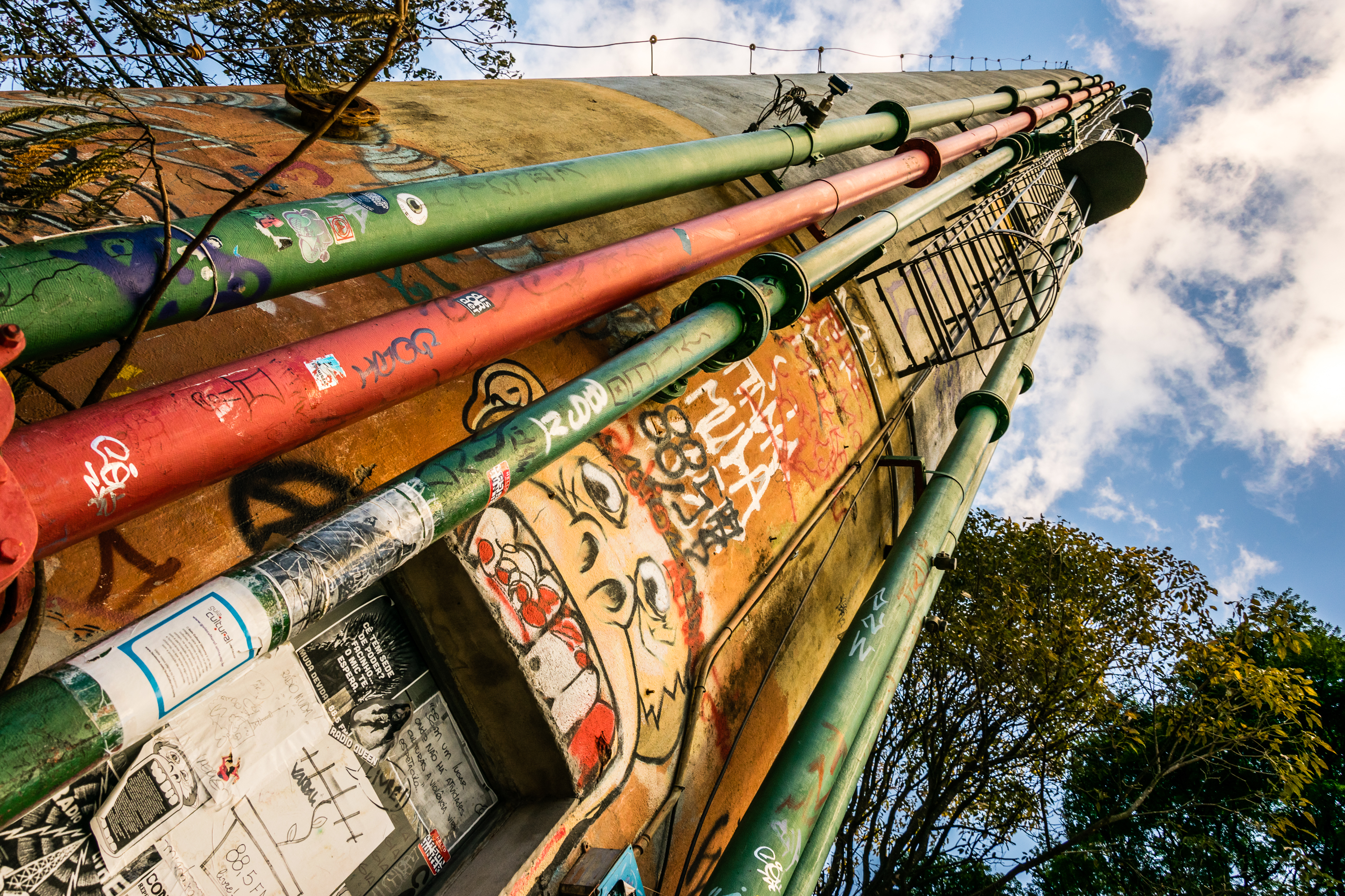 Rádio Muda. State University of Campinas (UNICAMP), Campinas, Brazil.